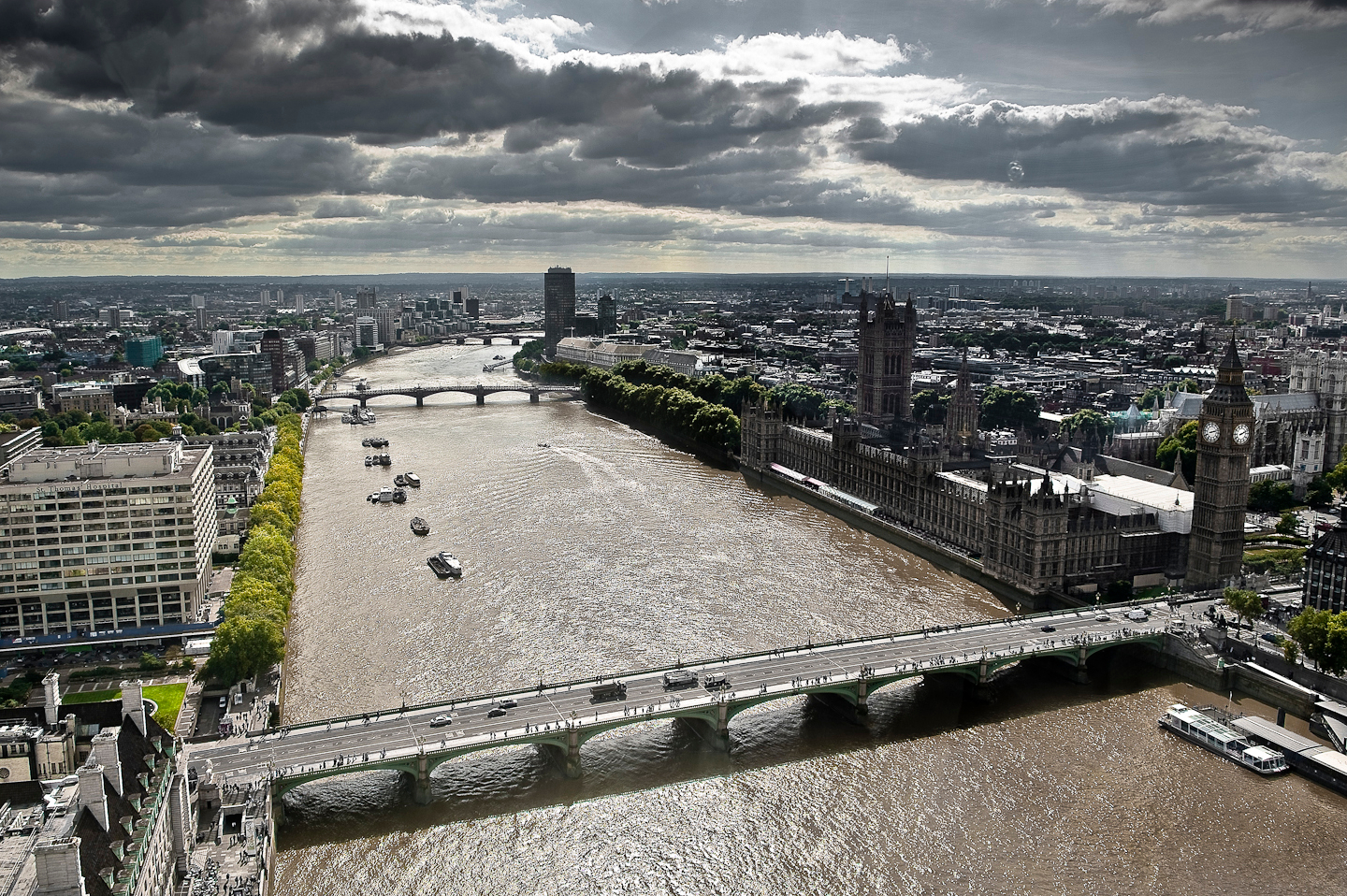 River Thames, Big Ben, and the Palace of Westminster. The bridge nearest the camera is Westminster Bridge, the next bridge is Lambeth Bridge, and bridge just visible in the distance is Vauxhall Bridge (as seen from the London Eye observation wheel).